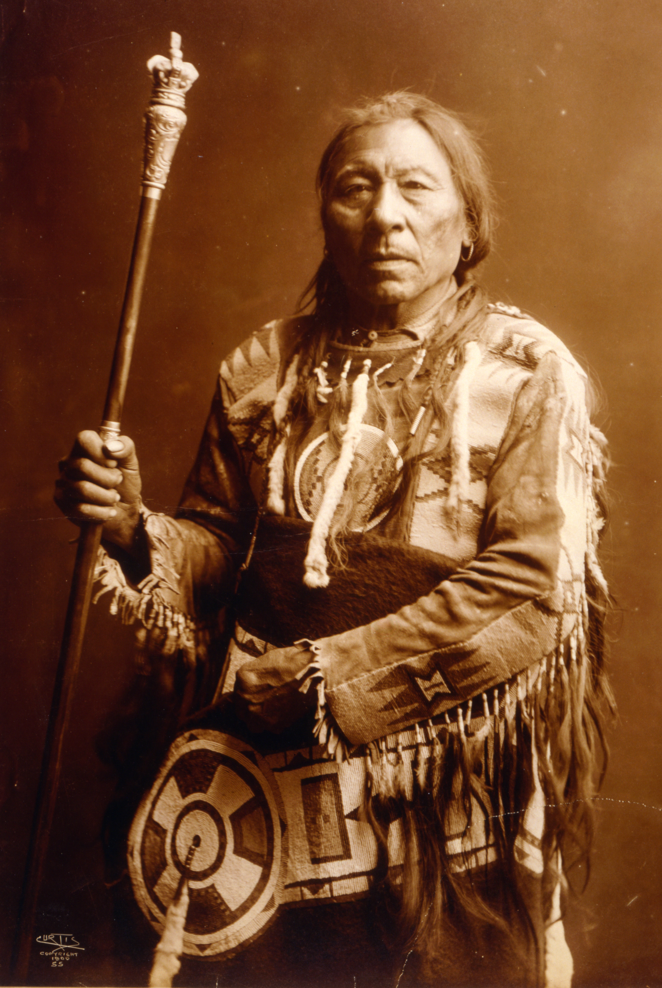 TITLE: Running Rabbit CALL NUMBER: LOT 12331, box 4 [item] [P&P] Check for an online group record (may link to related items) REPRODUCTION NUMBER: LC-USZC4-8917 (color film copy transparency) LC-USZ62-72211 (b&w film copy neg.) SUMMARY: Running Rabbit, Native man, half-length portrait, standing, facing front, holding staff. MEDIUM: 1 photographic print. CREATED/PUBLISHED: c1900. CREATOR: Curtis, Edward S., 1868-1952, photographer. NOTES: Curtis no. 55. LC no. 94. Copyright by Curtis. Forms part of: Edward S. Curtis Collection (Library of Congress). SUBJECTS: Running Rabbit. Indians of North America--Clothing & dress--1900. Staffs (Sticks)--1900. FORMAT: Portrait photographs 1900. Photographic prints 1900. REPOSITORY: Library of Congress Prints and Photographs Division Washington, D.C. 20540 USA DIGITAL ID: (color film copy transparency) cph 3g08917 (b&w film copy neg.) cph 3b19568 CONTROL #: 2001695839